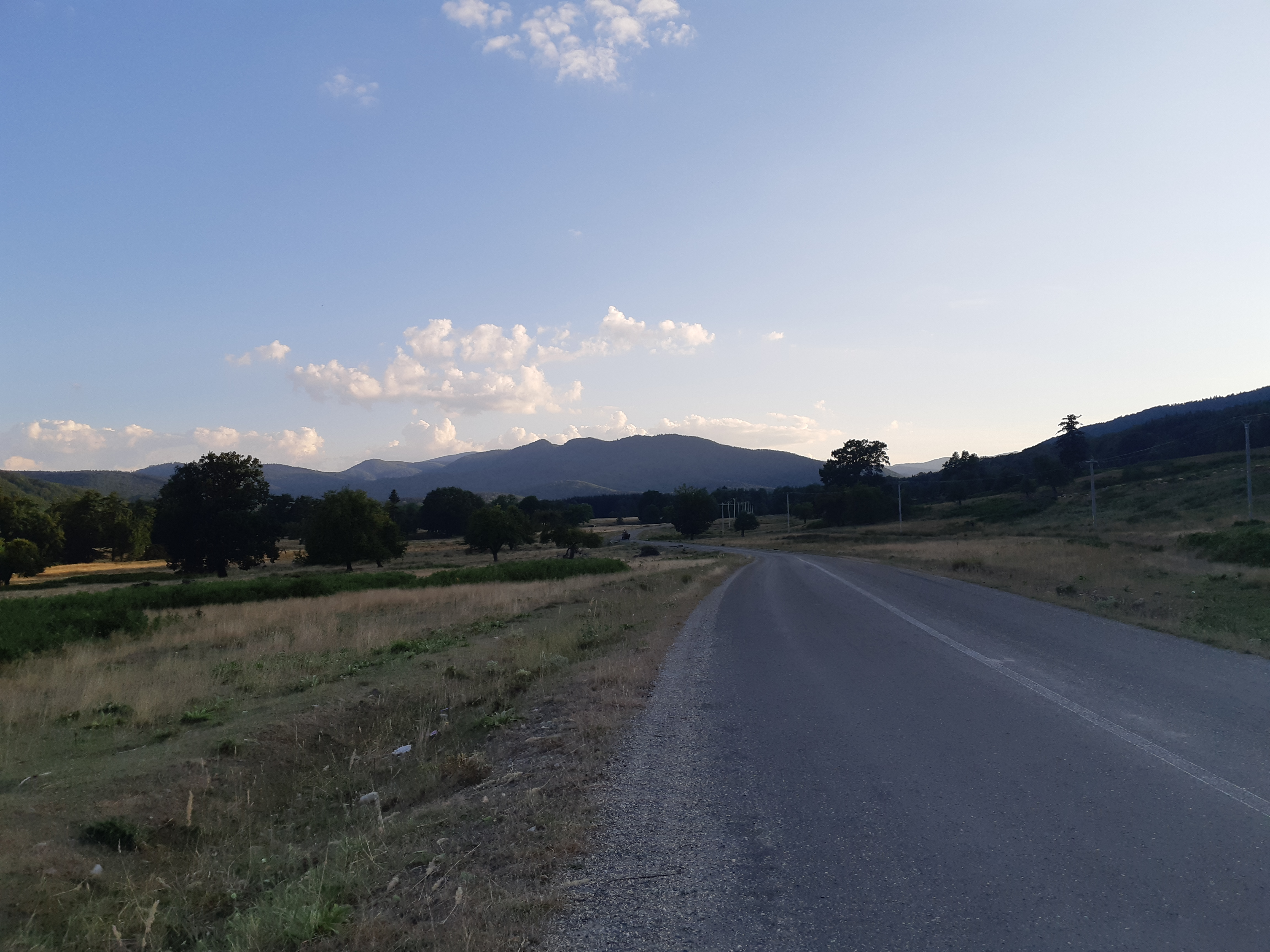 Caşin River valley (Bacău County)